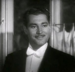 Alan Marshal in Dramatic School - trailer (cropped screenshot)